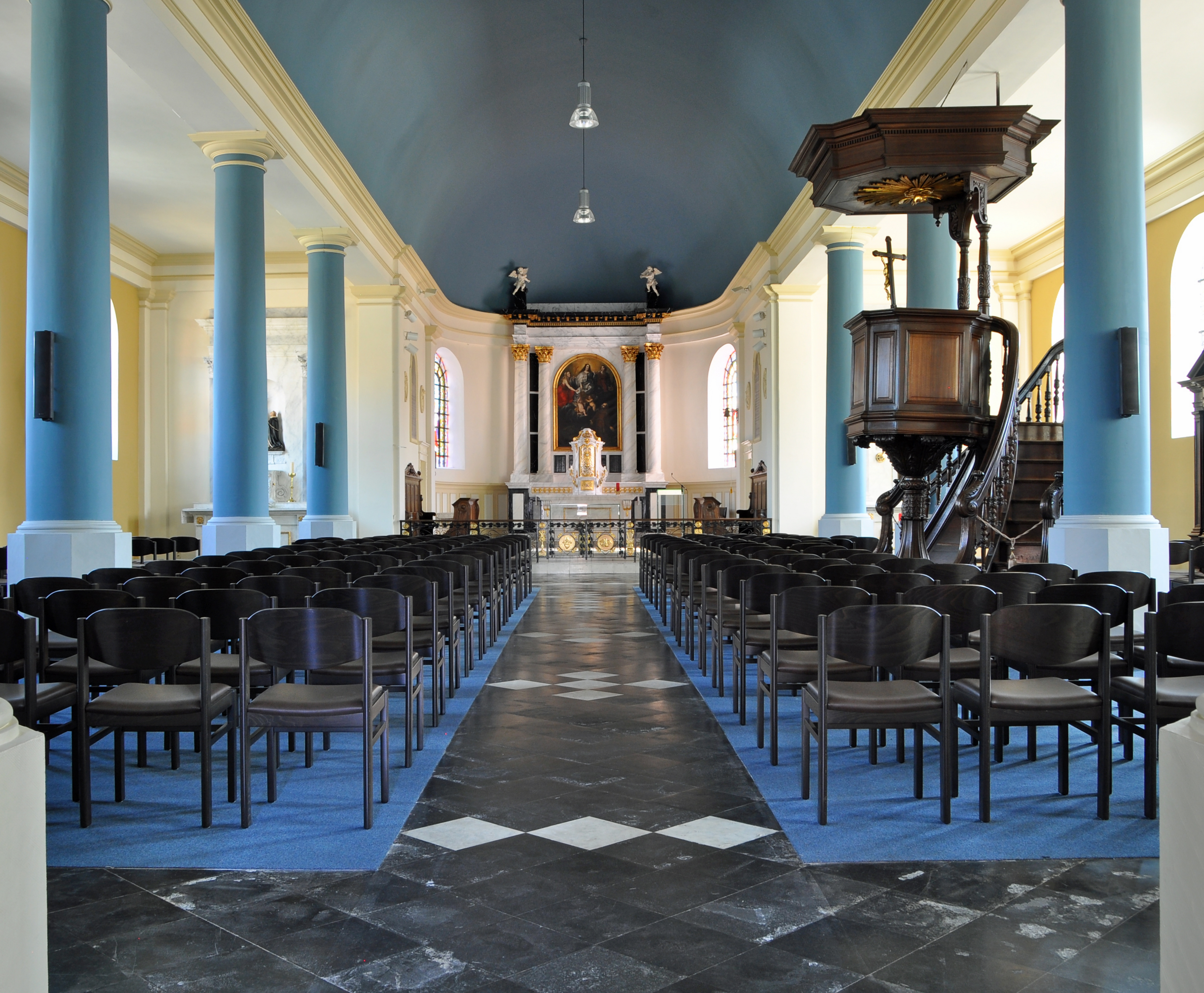 Sint-Joris-ten-Distel (Beernem, Belgium): St George's church - interior